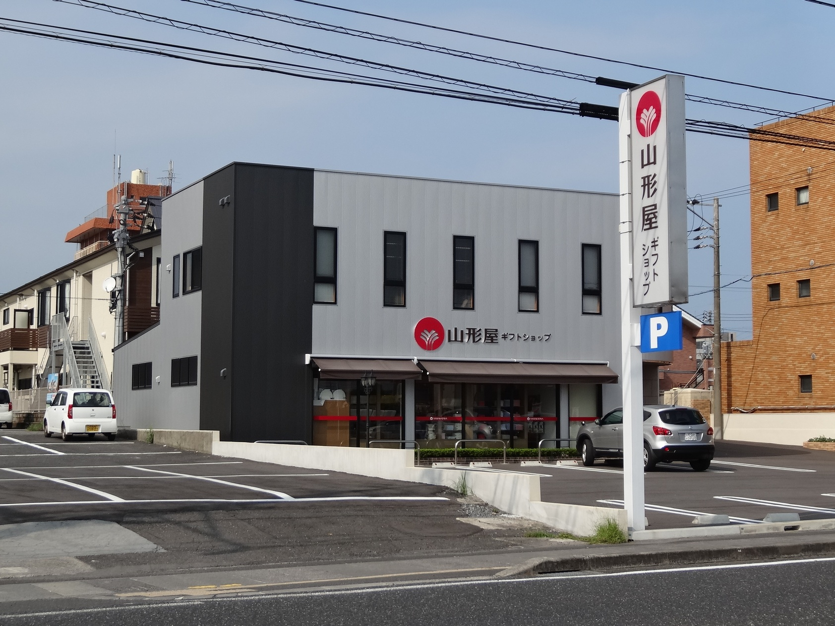 The Gift shop of Yamakataya Department Store in 2013 (Kanoya City, Kagoshima Prefecture, Japan)